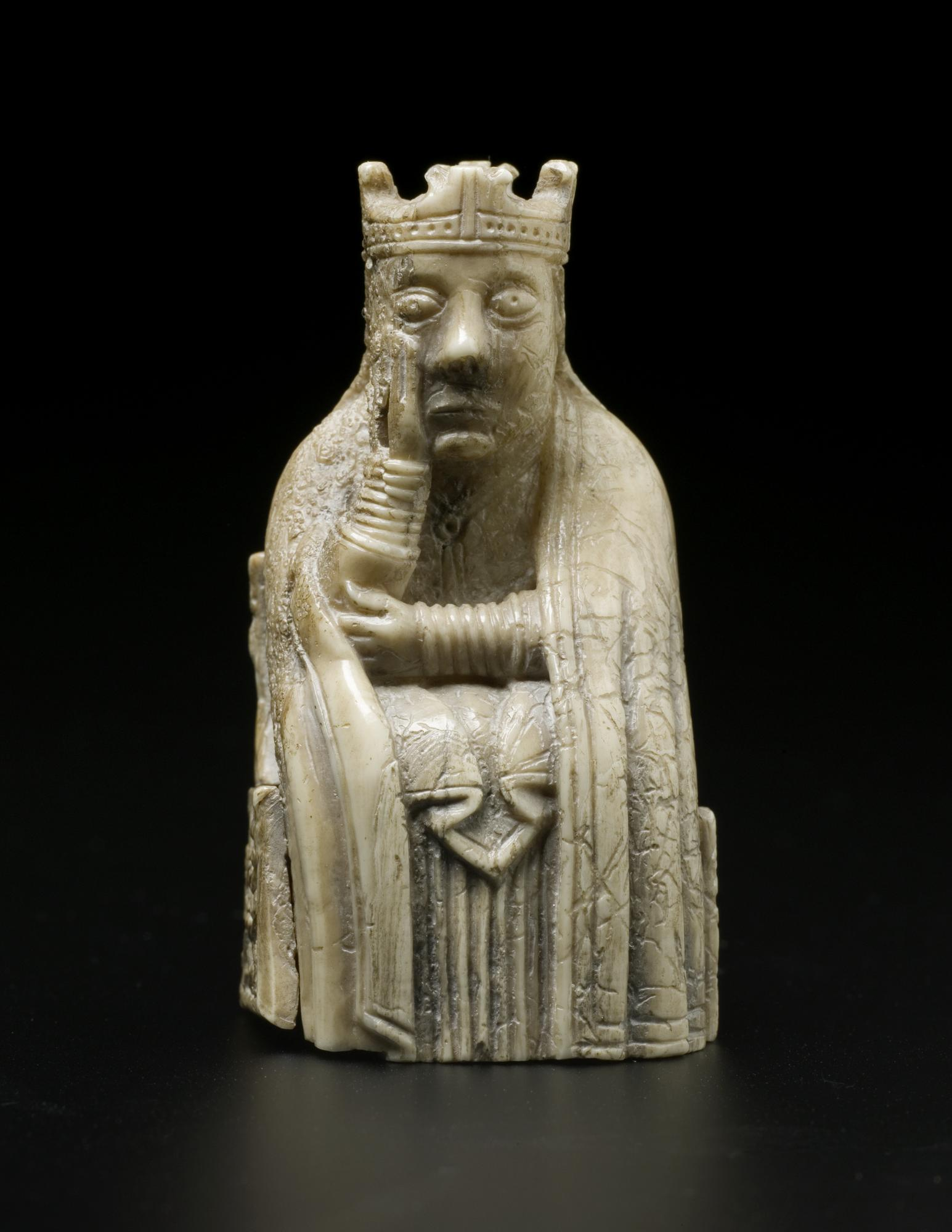 This file was uploaded as part of a partnership between Wikimedia UK and the National Museum of Scotland. This tag does not indicate the copyright status of the attached work. A normal copyright tag is still required. See Commons:Licensing. This work is free and may be used by anyone for any purpose. If you wish to use this content, you do not need to request permission as long as you follow any licensing requirements mentioned on this page.